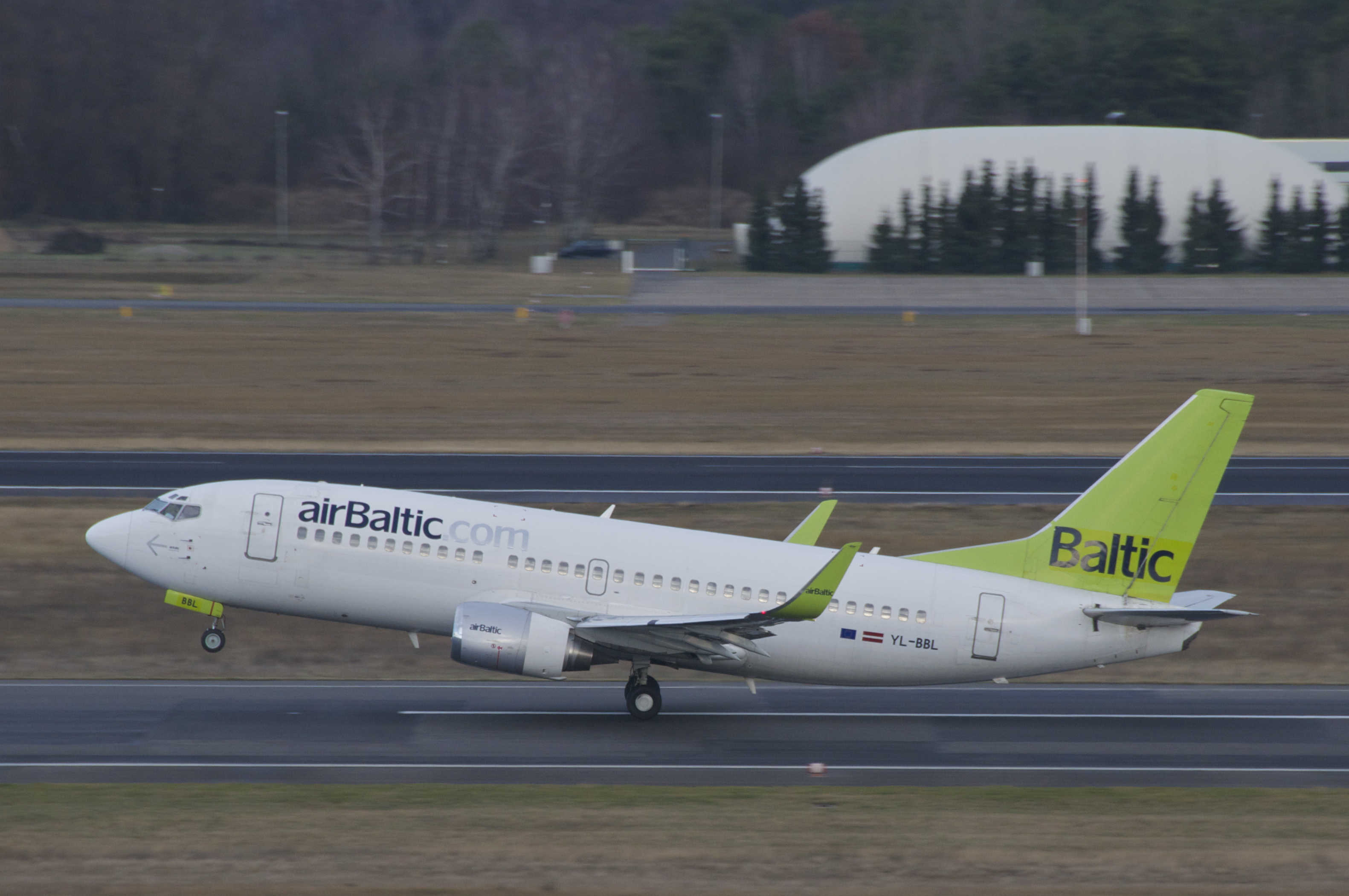 Air Baltic Boeing 737-300; YL-BBL@TXL;30.12.2012/684bg